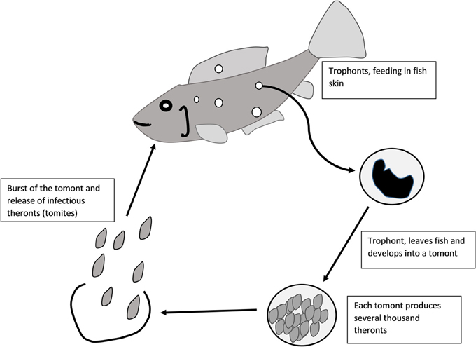 Simplified scheme of the life cycle of the fish parasite Ichthyophthirius multifiliis